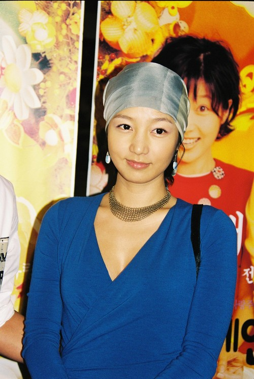 South Korean film Over the Rainbow press preview in Joongang Cinema, Seoul on May 8, 2002.